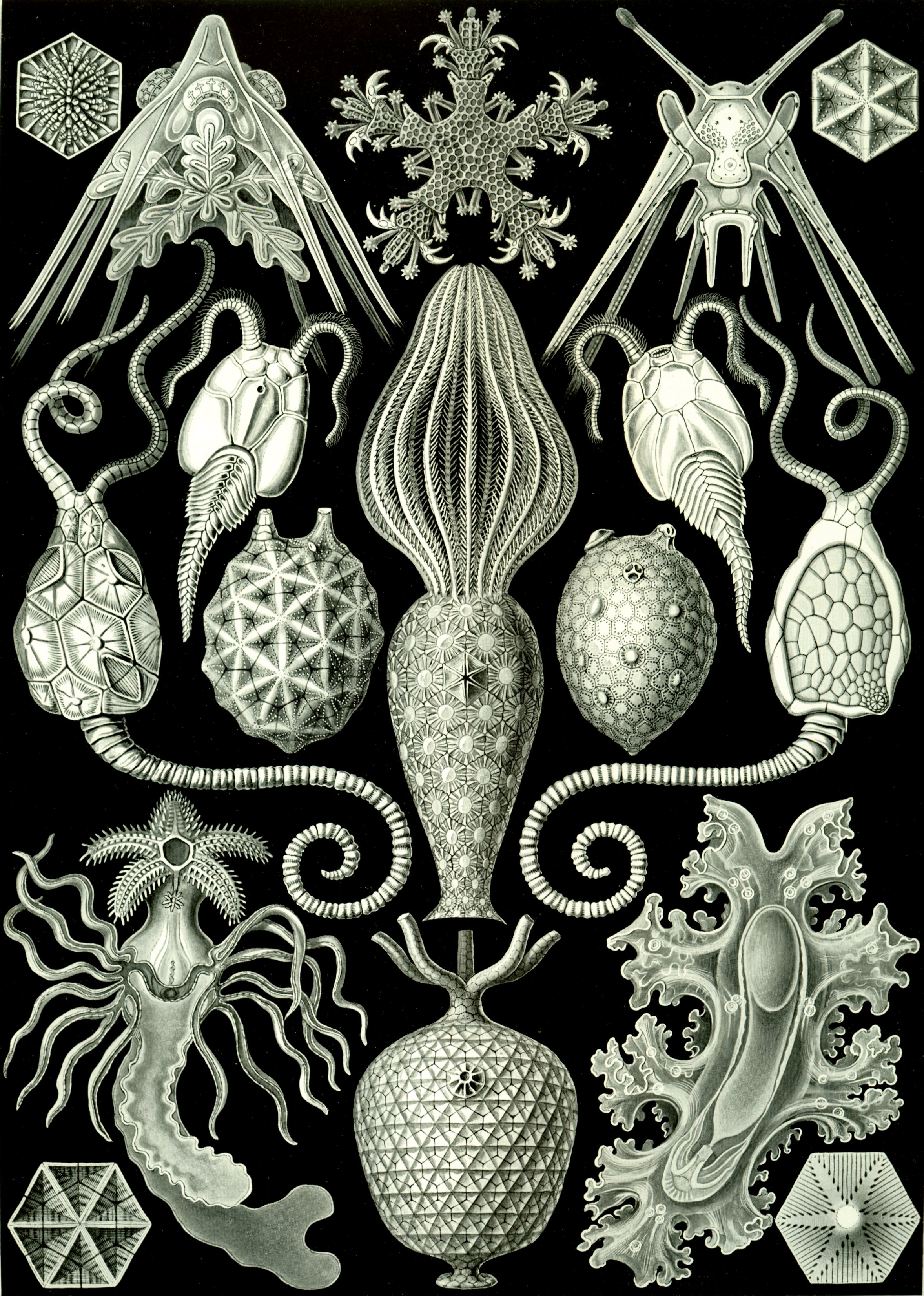 See here for index to numbers. Placocystis crustacea (Haeckel) = Enoploura balanoides (Meek, 1872) (1a: from above, 1b: from below) (See Echinodermata) Pleurocystis filitexta (Billings) = Pleurocystites filitextus Billings 1854 (2a: from above, 2b: from below) (See Pleurocystites) Orocystis Helmhackeri (Barrande) = Orocystites helmhackeri (Barrande, 1887) (3b: single armour plate) (See Rhombifera) Deutocystis modesta (Barrande) = Echinosphaerites sp., juvenile (See Echinosphaerites) Citrocystis citrus (Haeckel) / Echinosphaera citrus (Kloeden) = Echinosphaerites kloedeni Jaekel 1899? (5b,5c: single armour plates) (See Echinosphaerites) Acanthocystis briareus (Barrande) = Acanthocystites briareus Barrande, 1887 (See Gogiida) Aristocystis bohemica (Barrande) = Aristocystites bohemicus Barrande, 1887, single armour plate (See Echinodermata) Ophiothrix fragilis (J. Müller) = Ophiothrix fragilis (Abildgaard, 1789), juvenile (See Ophiothrix fragilis) Pluteus bimaculatus (J. Müller) / Ophiura filiformis = Ophiuridae sp.?, pluteus larva (See Ophiuridae) Plutellus aequituberculatus (J. Müller) / Echinocidaris aequituberculata = Arbacia lixula (Linnaeus, 1758), pluteus larva (See Arbacia lixula) Bipinnaria asterigera (J. Müller) / Luidia sarsi = Luidia sarsi Düben & Koren, 1845, bipinnaria larva (See Luidia sarsi) Auricularia nudibranchiata (Chun) = Protankyra brychia (Verrill, 1885), auricularia larva (See Protankyra brychia)